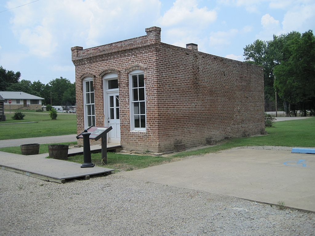 Powhatan Historic State Park, Powhatan, Arkansas.